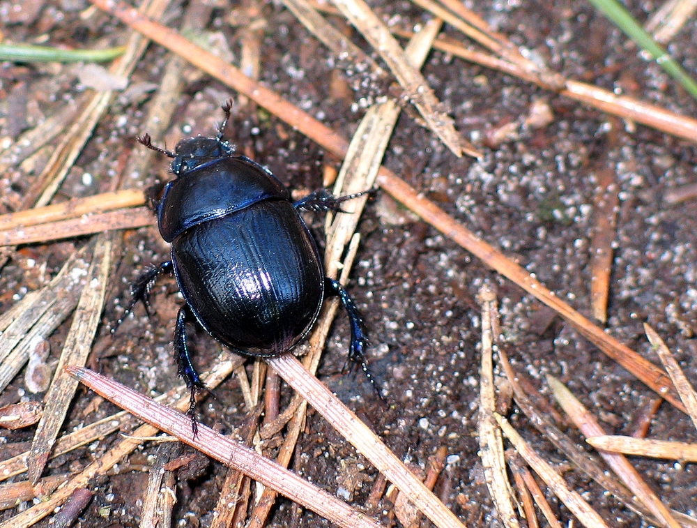 taken in Poland 2005 by M. Betley It's Anoplotrupes stercorosus --Vitalfranz 10:37, 20 October 2007 (UTC)